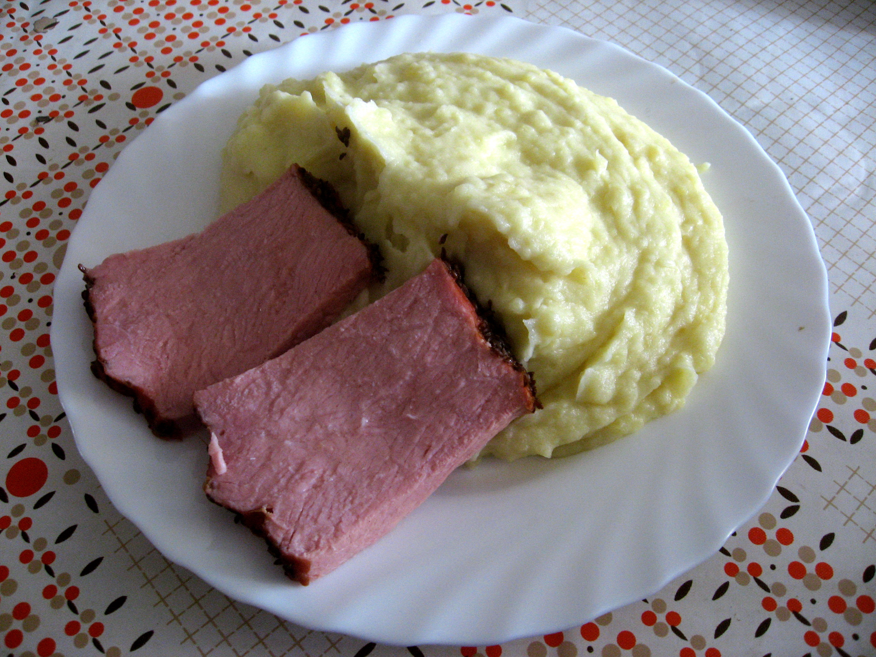 Smoked meat, mashed potatoes